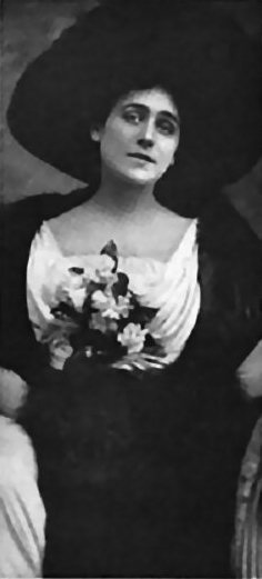 Ivy Troutman, actress